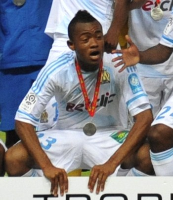 Jordan Ayew winning 2011 Trophée des Champions with Olympique de Marseille